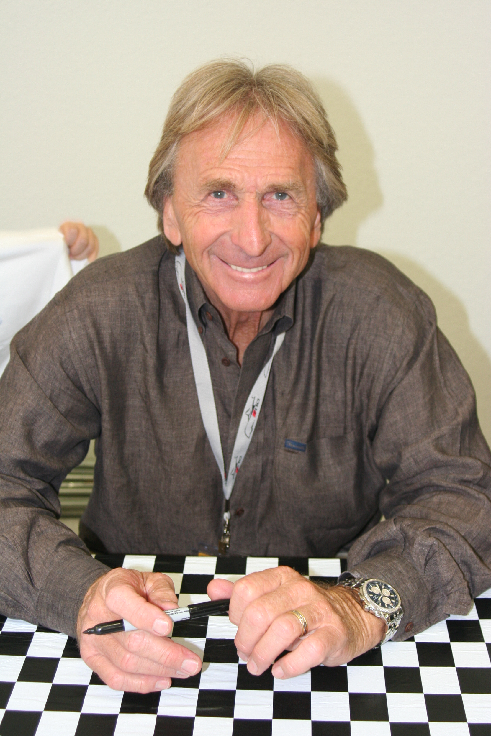 Shot by "The Daredevil" at the 2008 12 Hours of Sebring event